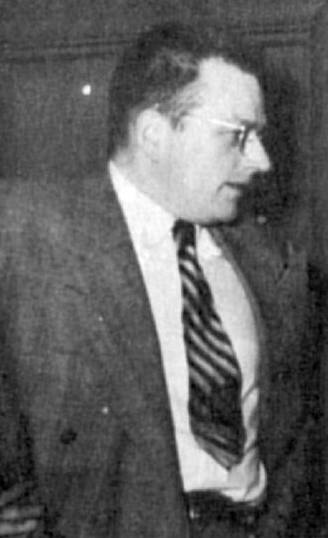 John W. Campbell at the 1952 World Science Fiction Convention